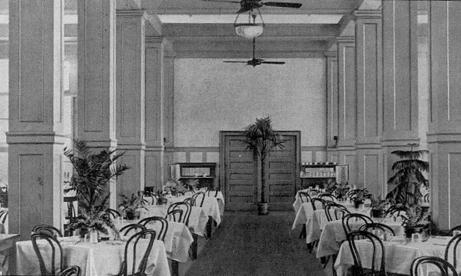 photo of the Chick Springs Hotel dining room (c. 1904), Taylors, South Carolina, USA